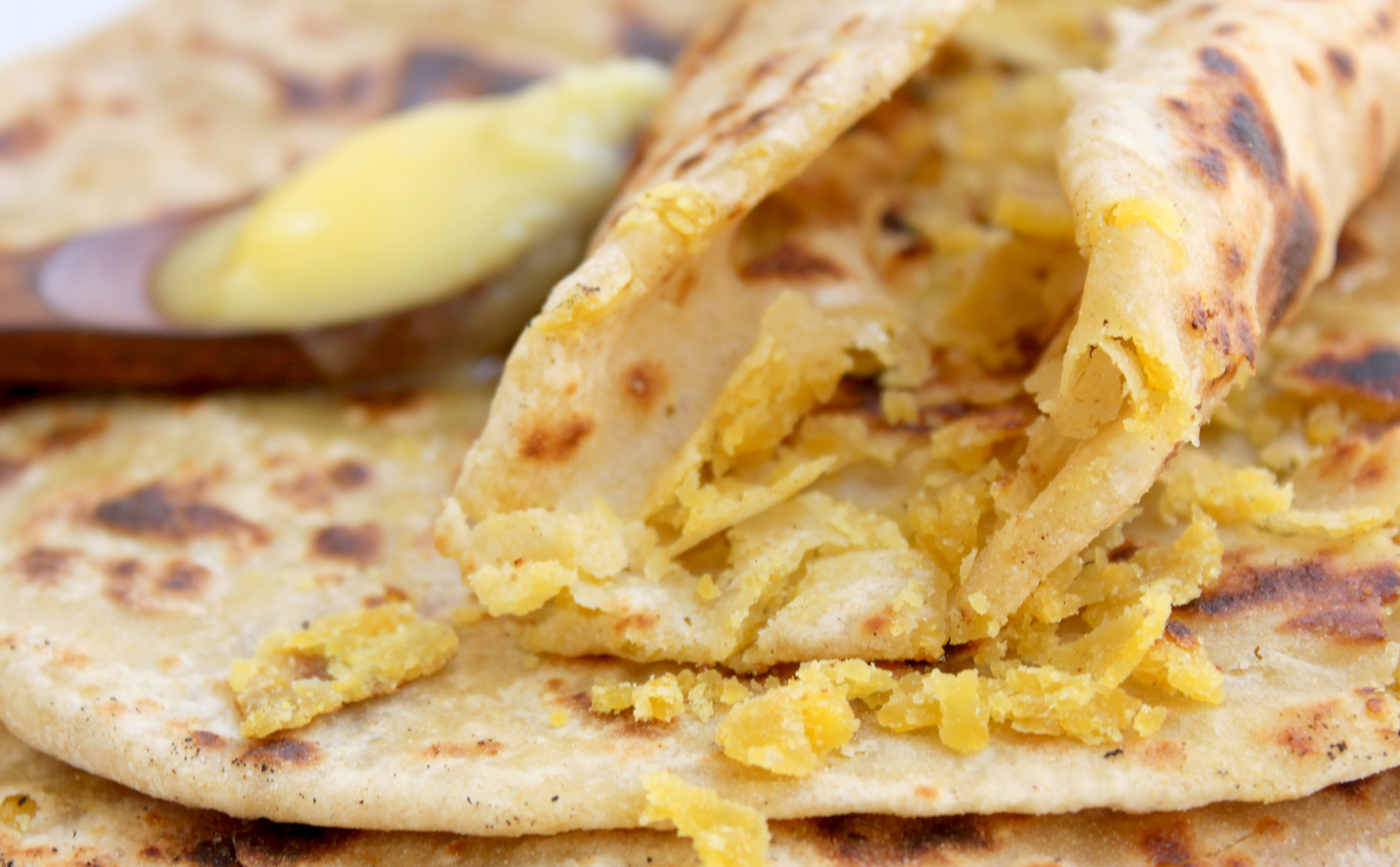 This is an authentic Maharashtrian sweet dish. The basic ingrediants used in the Puran poli are Chana daal, Jaggery and maida. It goes very tasty with desi ghee or milk. As this is a traditional dish, all Maharashtrians have puran poli on many festivals and all important occasions.